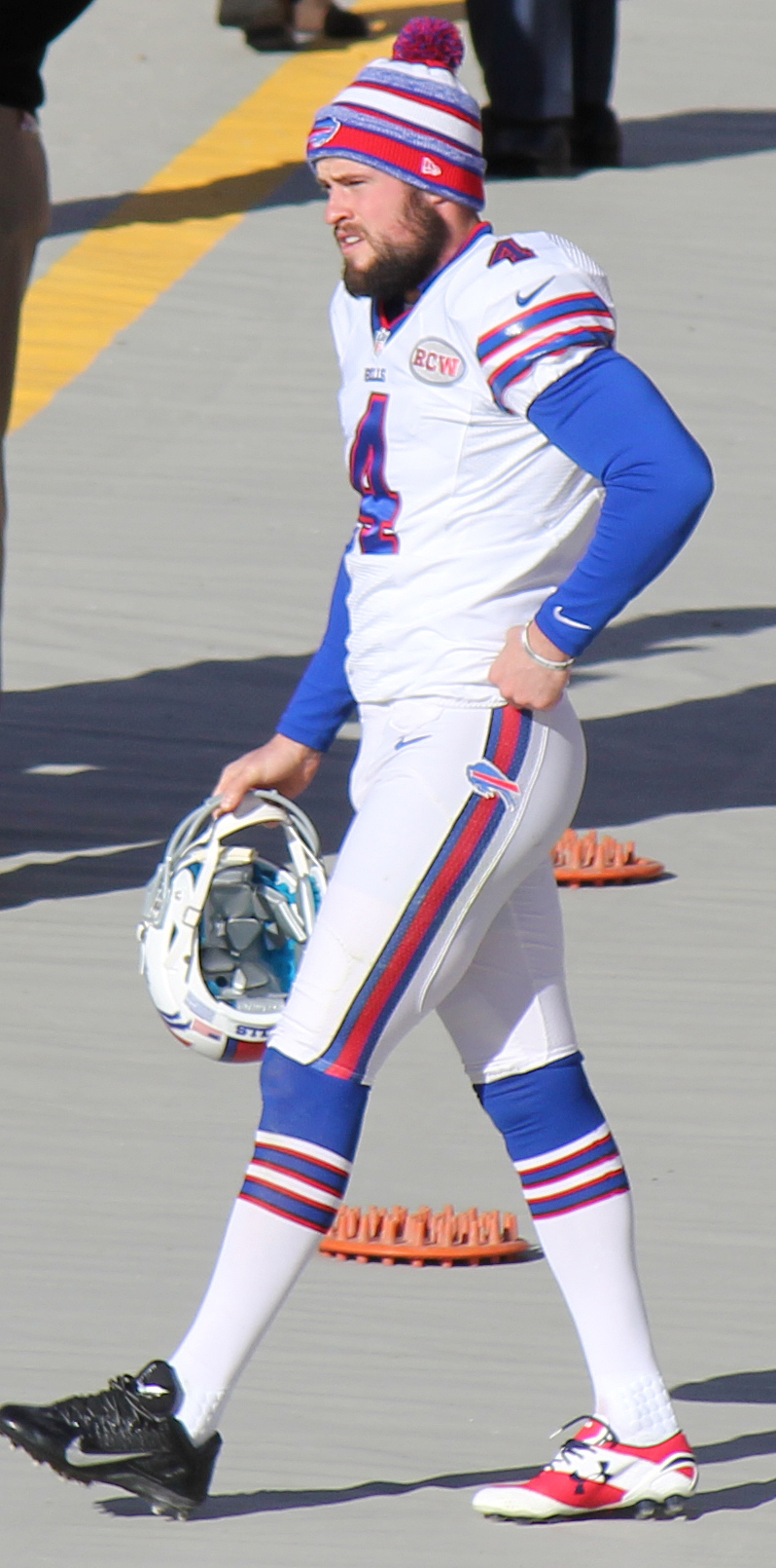 Jordan Gay, a player on the National Football League.